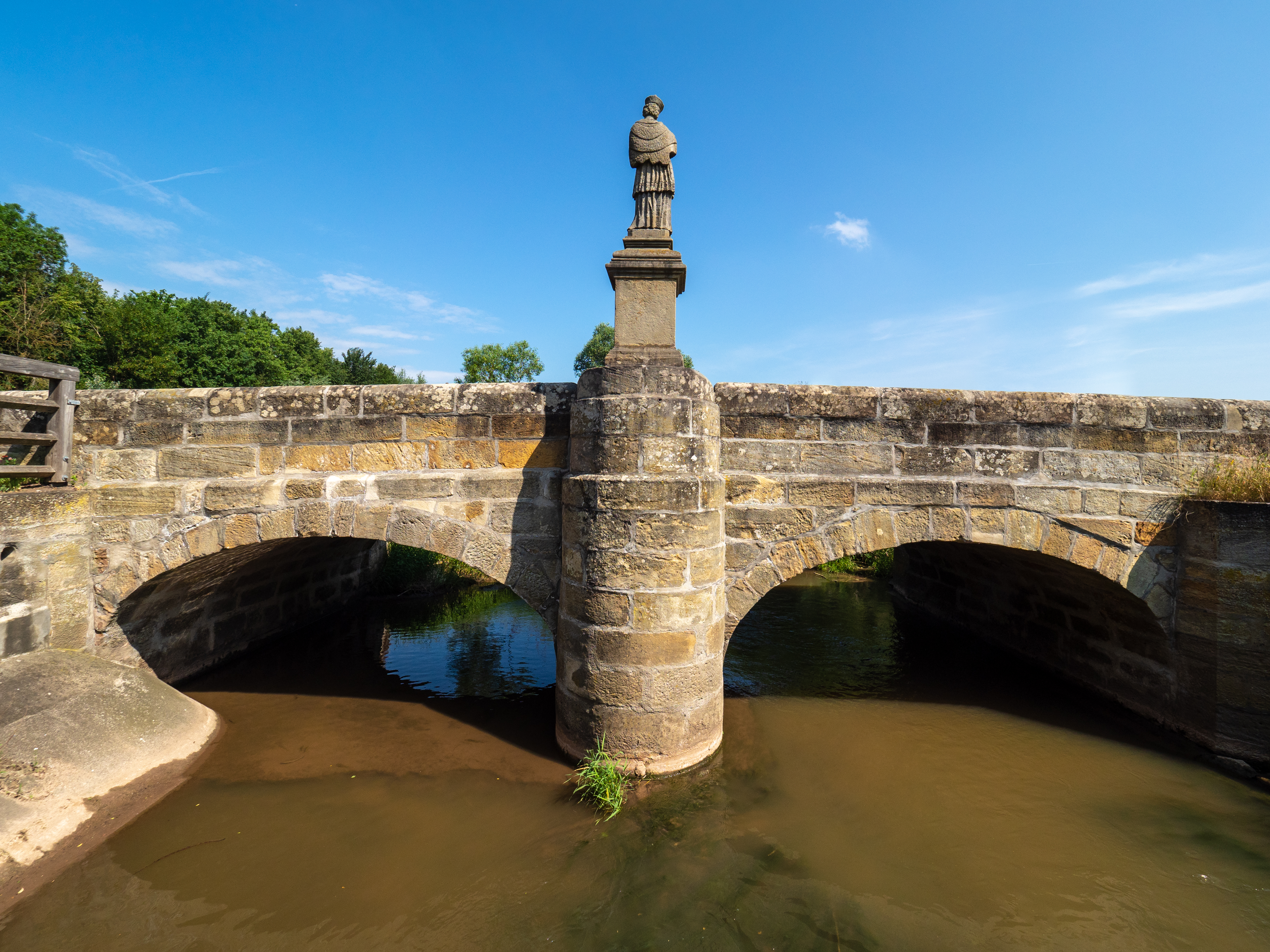 Sandstone bridge over the Baunach near Ebern